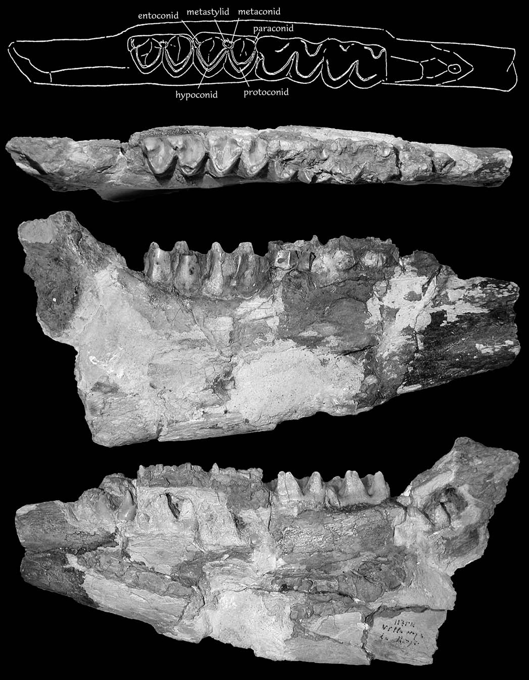 Sinohippus sampelayoi, IGME 1175M, holotype. Fragment of right hemimandible with p2, d2, p3, d3, p4, d4, m1, m2, and m3. In occlusal (A), buccal (B), and lingual (C) views.